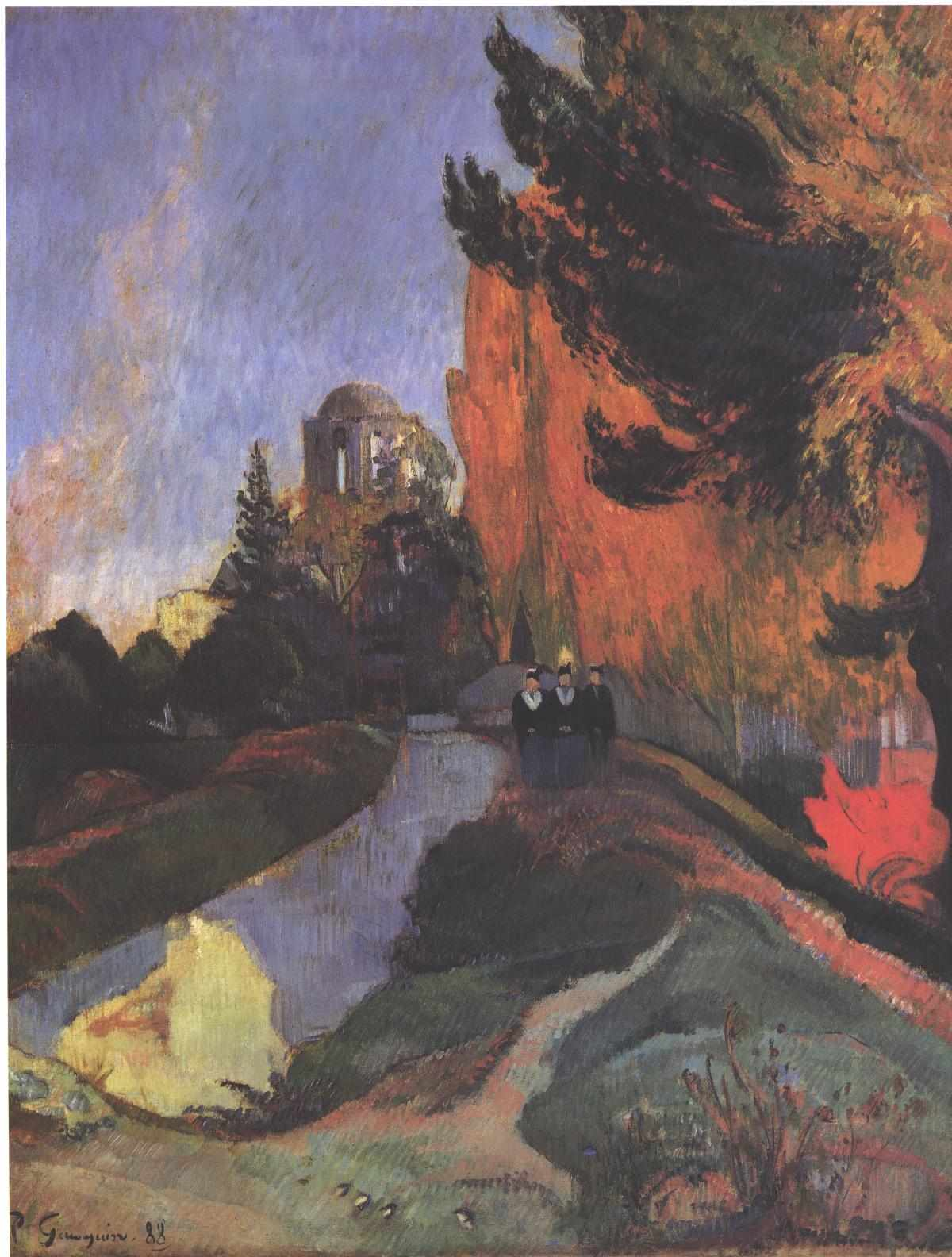 Les Alyscamps